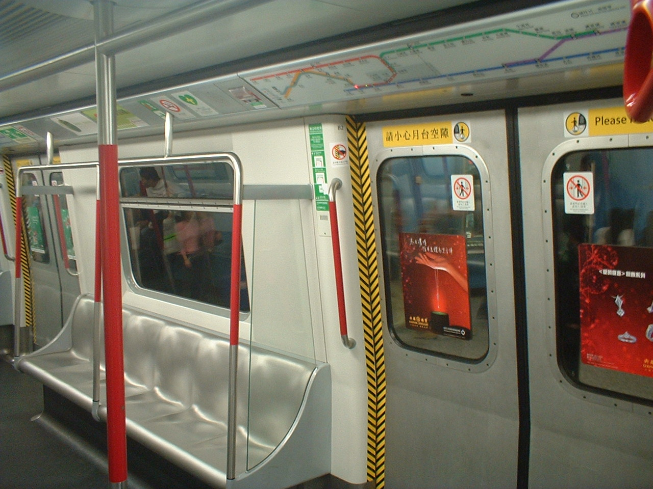 Interior of the M-train, the oldest trains on the MTR.